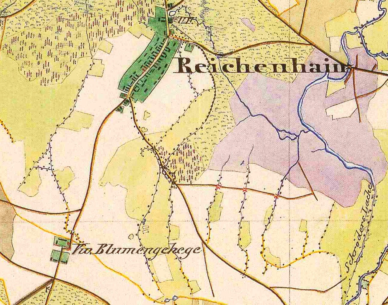 Das Vorwerk Maiblumengehege (hier als Blumengehege bezeichnet), Lkr. Elbe-Elster, Brandenburg, Germany, detail from the Urmesstischblatt Sheet 4546 Gröditz, drawn in 1847